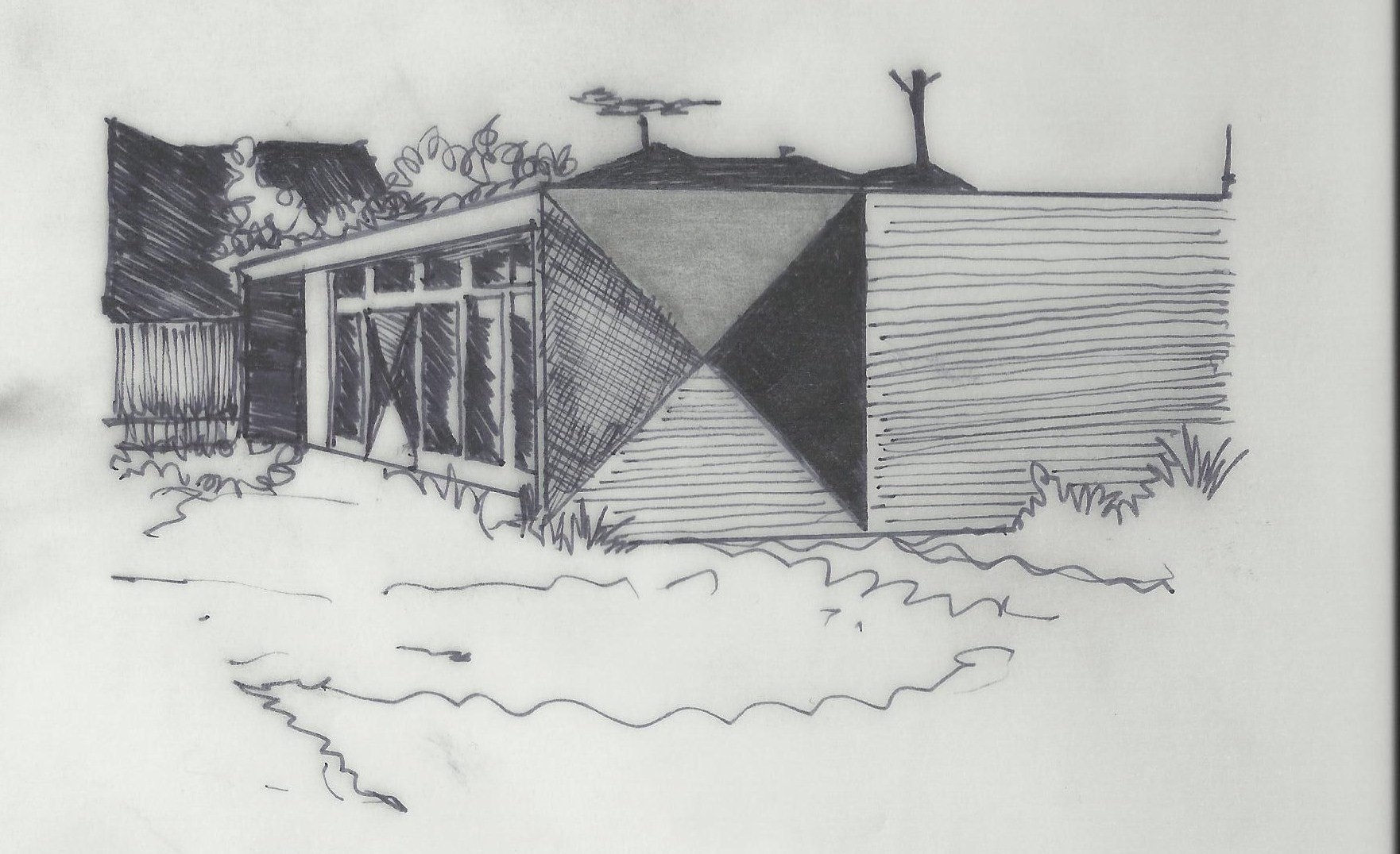 Image of House